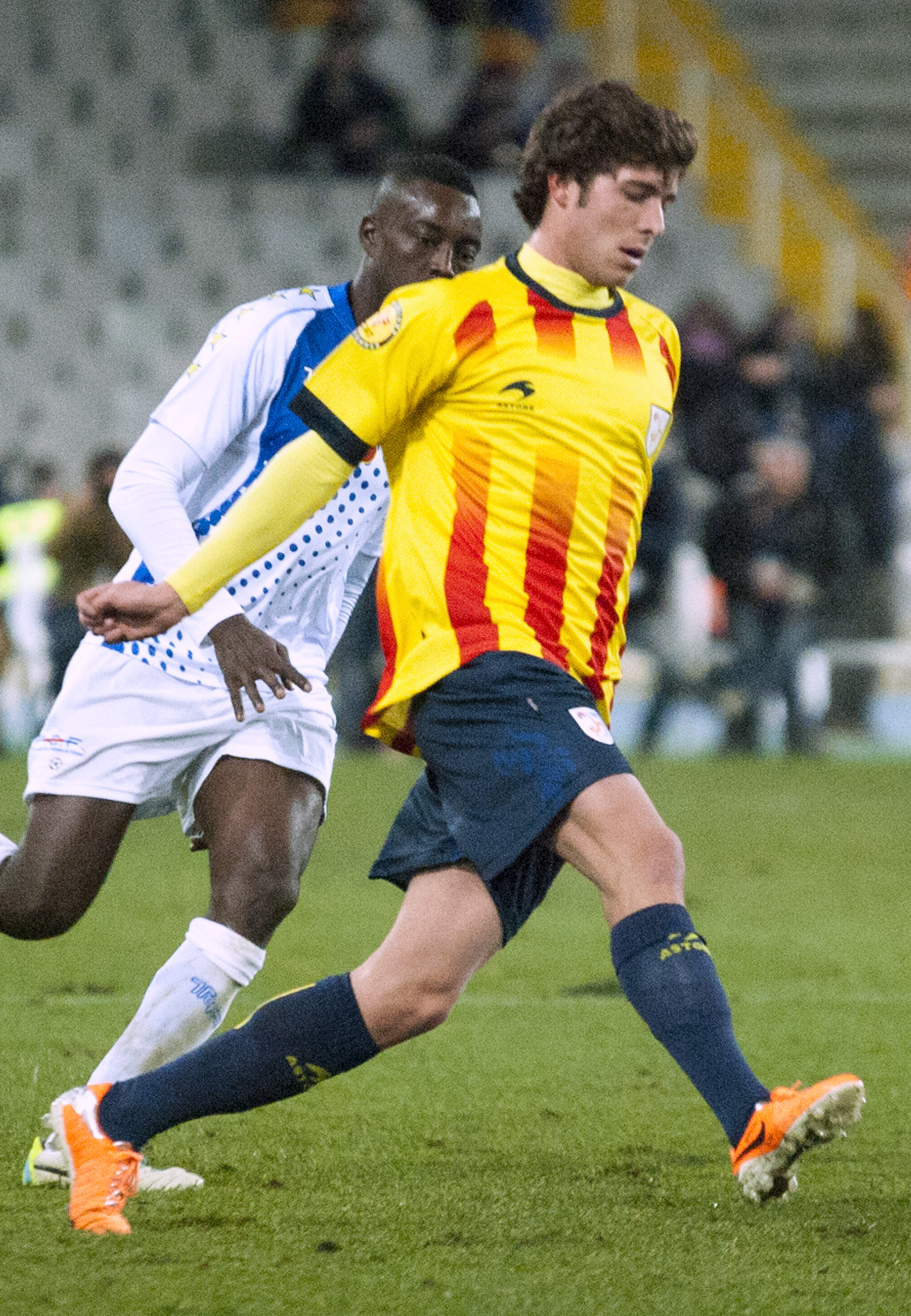 Spanish football player Sergi Roberto during friendly match Catalonia vs. Cape Verde